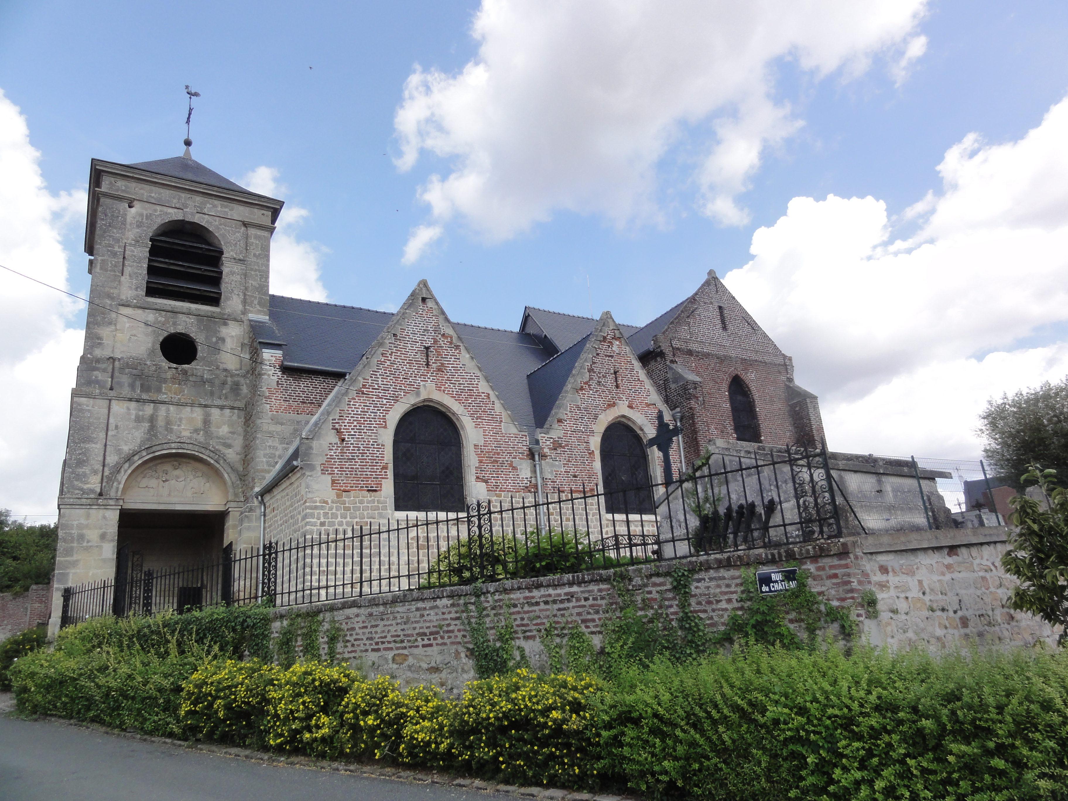 Caillouël-Crépigny (Aisne) église Saint-Pierre, vue du sud